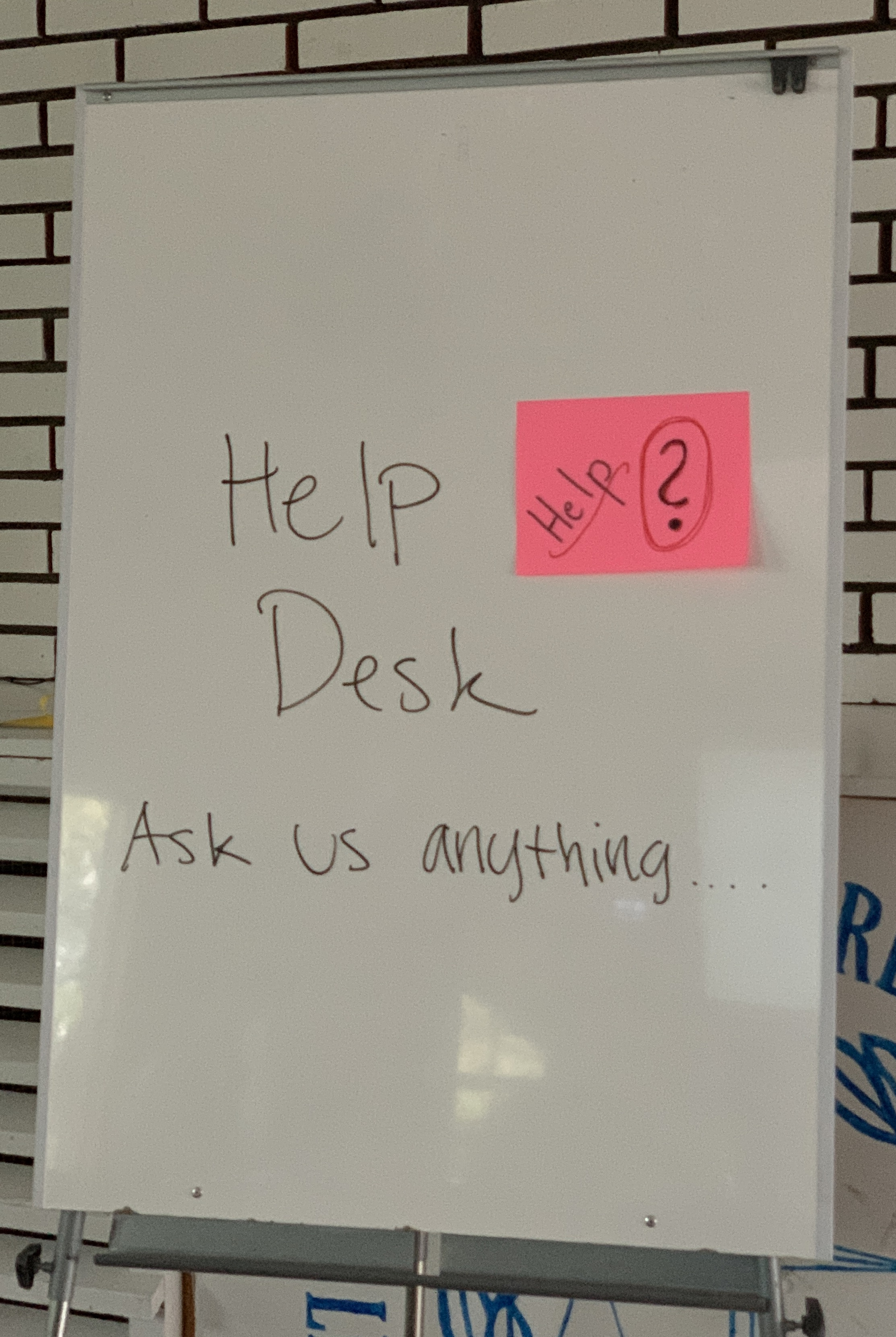 Wikimania Hackathon 2019 Stockholm help desk sign